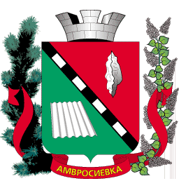 Coat of arms of Amvrosiyivka, Donetsk Oblast, Ukraine